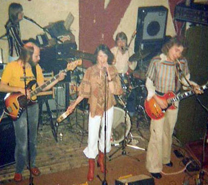 Swedish pop group Stardust at The Greyhound, Hammersmith, London 1977